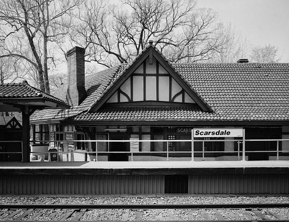 Scarsdale Railroad Station, East Parkway, Scarsdale (Westchester County, New York) cropped VIEW OF INBOUND STATION, EAST FACADE This file comes from the Historic American Buildings Survey (HABS), Historic American Engineering Record (HAER) or Historic American Landscapes Survey (HALS). These are programs of the National Park Service established for the purpose of documenting historic places. Records consist of measured drawings, archival photographs, and written reports. When reusing please credit: Library of Congress, Prints & Photographs Division, NY,60-SCARD,3-10 This tag does not indicate the copyright status of the attached work. A normal copyright tag is still required. See Commons:Licensing for more information. English | +/− This work is in the public domain in the United States because it is a work prepared by an officer or employee of the United States Government as part of that person’s official duties under the terms of Title 17, Chapter 1, Section 105 of the US Code. See Copyright. Note: This only applies to original works of the Federal Government and not to the work of any individual U.S. state, territory, commonwealth, county, municipality, or any other subdivision. This template also does not apply to postage stamp designs published by the United States Postal Service since 1978. (See 206.02(b) of Compendium II: Copyright Office Practices). It also does not apply to certain US coins; see The US Mint Terms of Use. This file has been identified as being free of known restrictions under copyright law, including all related and neighboring rights. Object location40° 59′ 22″ N, 73° 48′ 32″ W